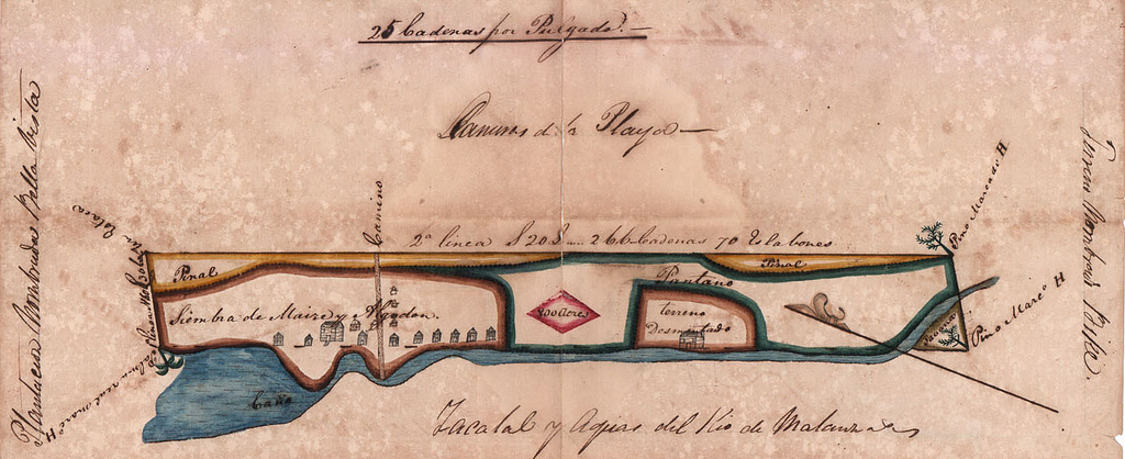 Confirmed Spanish Land Grant of Joseph M. Hernandez Local call number: Series 991, Box 17, Folder 14 Title: Confirmed Spanish Land Grant of Joseph M. Hernandez Date: September 1818 General note: Plantation named "Mala Compra," located on the Matanzas River near St. Augustine, Florida. Physical descrip: 1 digital scan of the original Series Title: Spanish Land Grants Collection